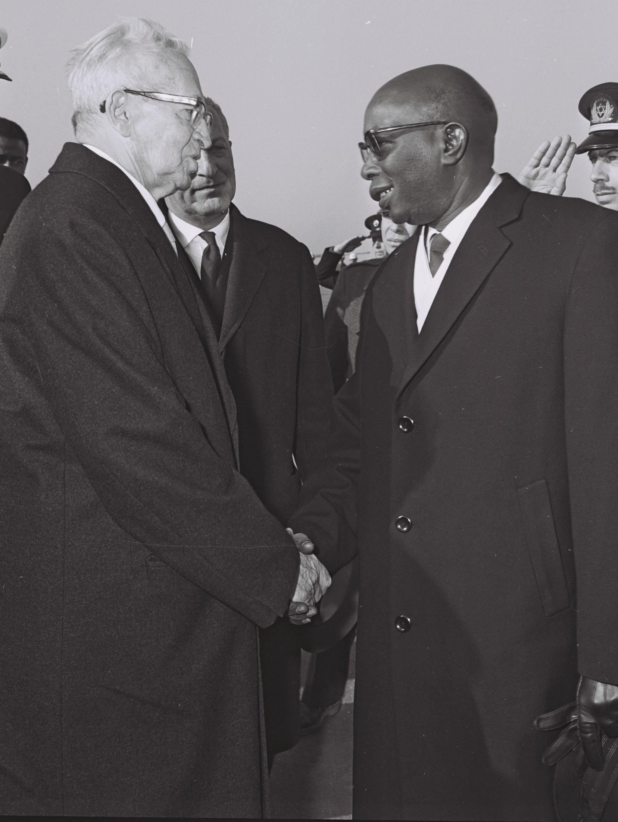 THE KING OF BURUNDI TAKING LEAVE FROM PRES. YITZHAK BEN ZVI (L) BEFORE HIS DEPARTURE.